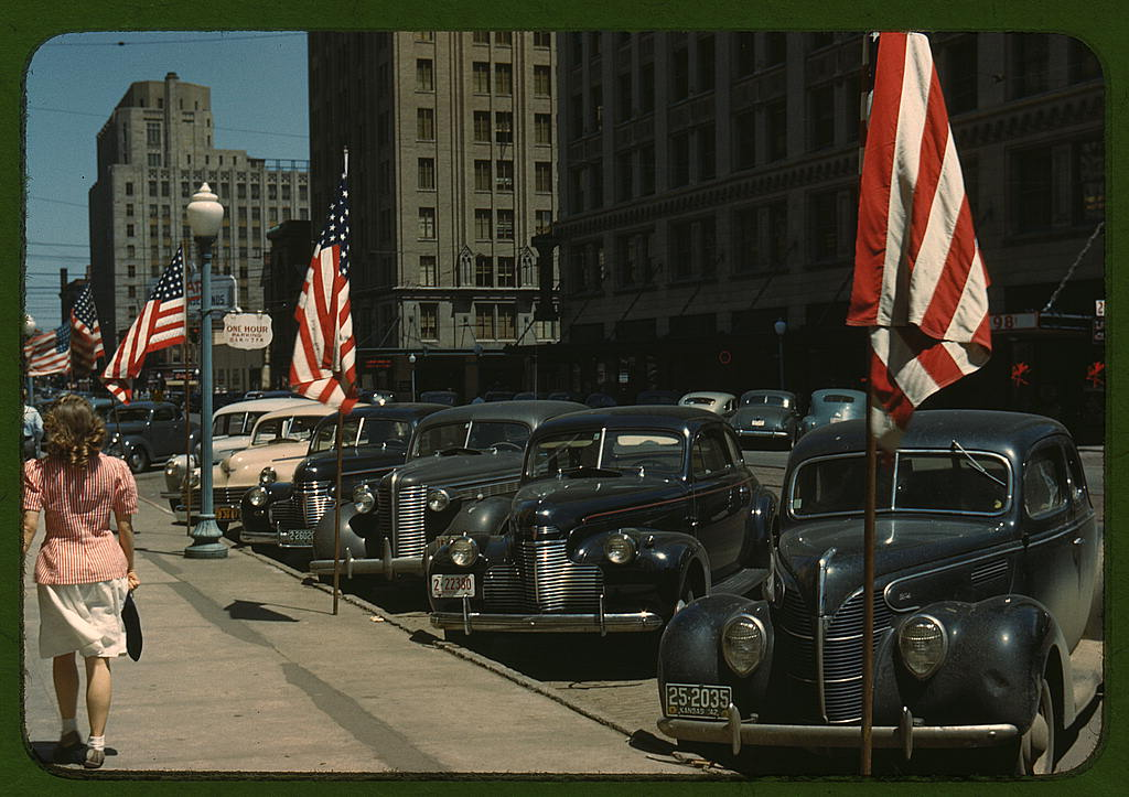 Lincoln, Nebraska in 1942 NOTES: Date based on year on car license plate. Title from FSA or OWI agency caption. Transfer from U.S. Office of War Information, 1944. FORMAT: Slides--Color RIGHTS: No known restrictions on publication. REPOSITORY: Library of Congress, Prints and Photographs Division, Washington, D.C. 20540 CALL NUMBER: LC-USF35-266 HIGHER RESOLUTION IMAGE: FROM: Farm Security Administration - Office of War Information Collection 11671-28 (DLC) 93845501 FSA/OWI Color Photograph Information